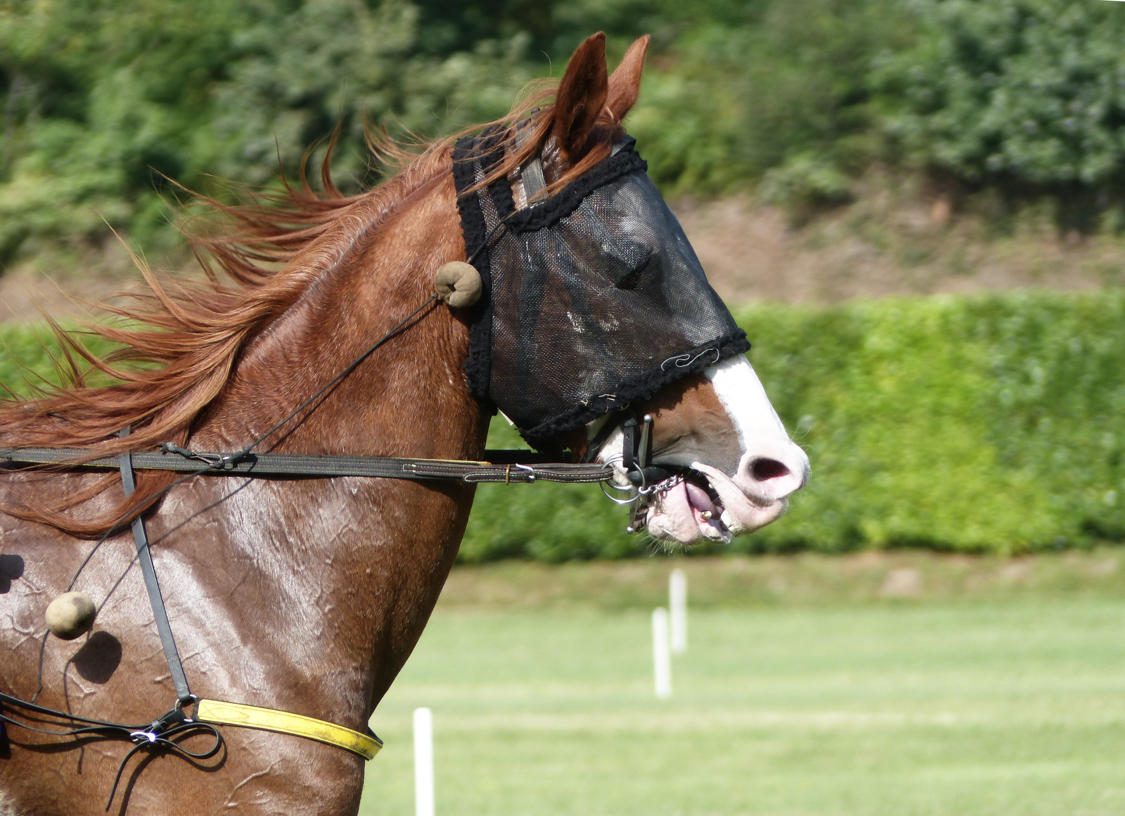 Head of a chestnut French Trotter gelding wearing a fly mask, during a race at the racecourse of Saint-Jean-des-Prés, Guillac, Brittany, France.